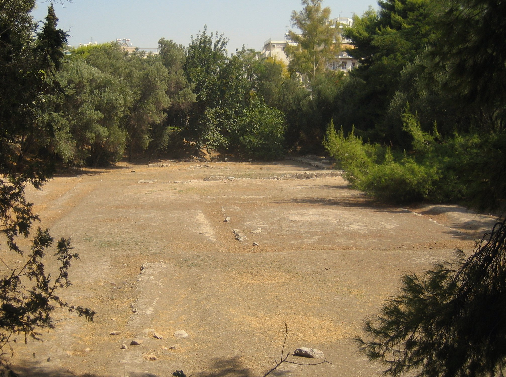 Plato's Academy Archaeological Site in Akadimia Platonos subdivision of Athens, Greece.